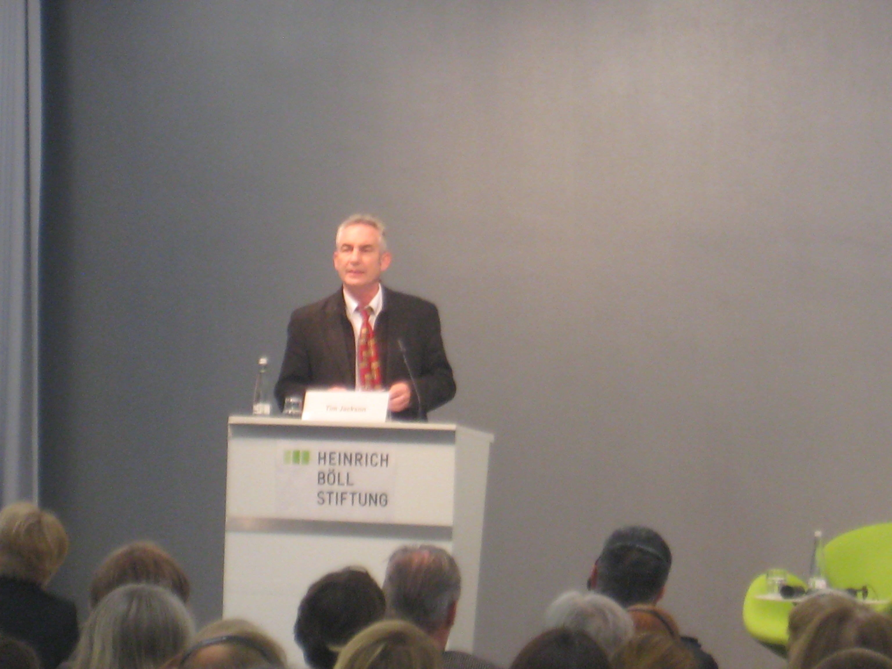 Tim Jackson, author of "Prosperity without growth: economics for a finite planet", at an event of the Heinrich-Böll-Stiftung.